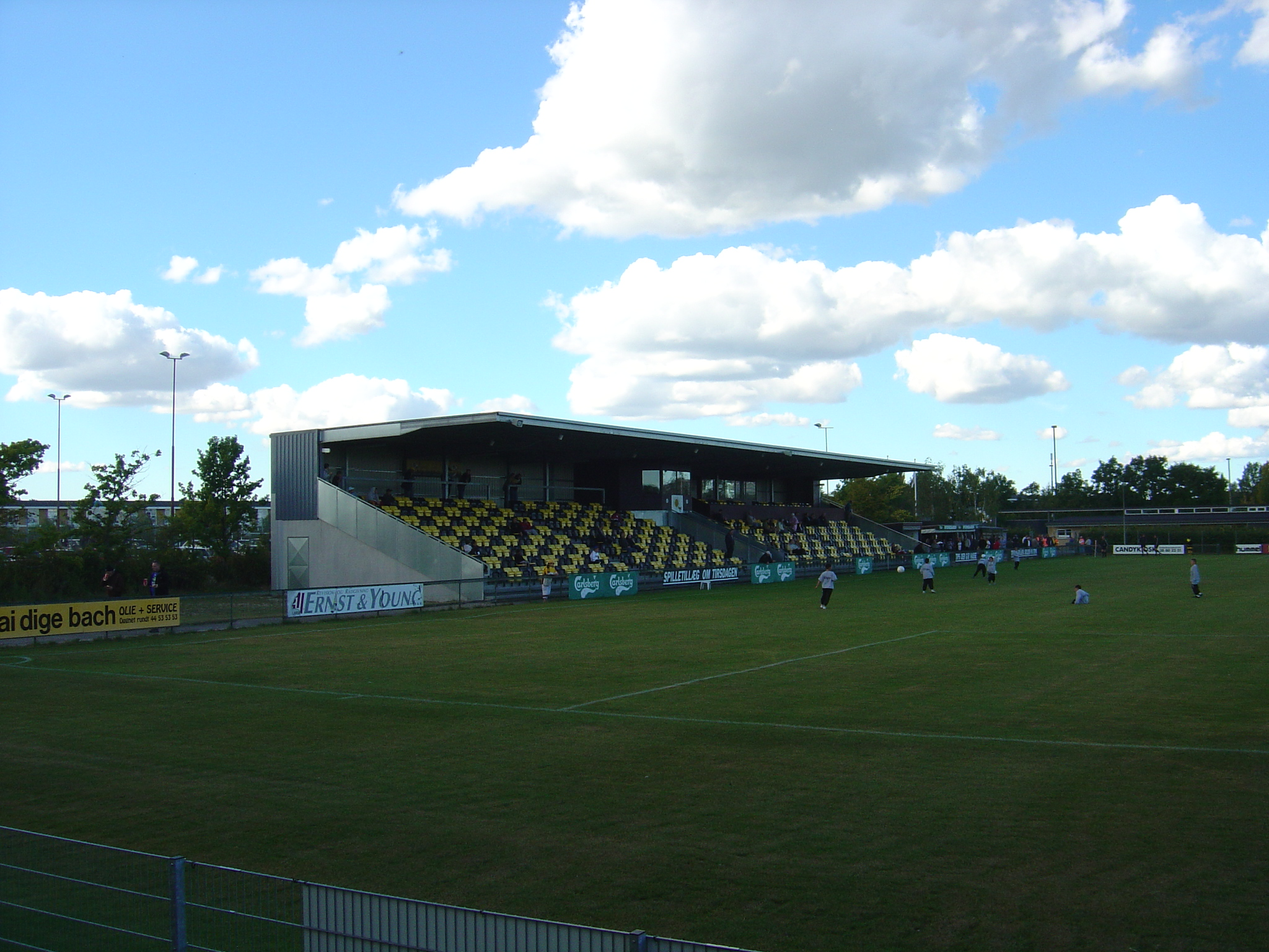 Tingbjerg Idrætspark - a Danish association football stadium is part the a sports area located in Brønshøj, showing the main stand during a Danish 1st Division (level 2) match between Brønshøj Boldklub and Boldklubben Fremad Amager on 17 September 2005.